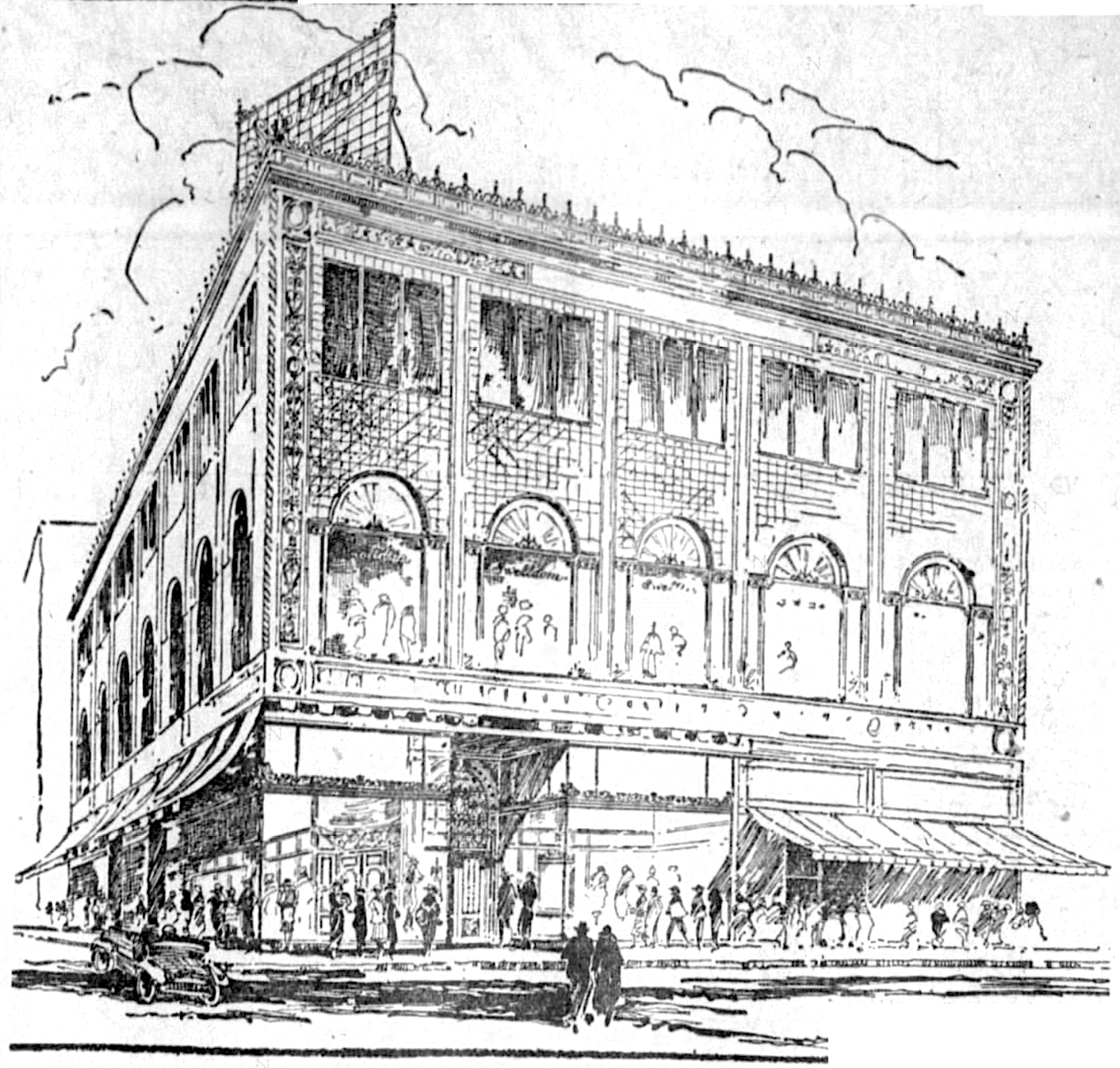 Swelldom 6th and Broadway sketch of planned 1925 renovation